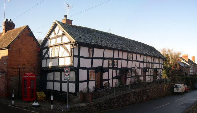 Duppa Almshouses (former), Pembridge Endowed by Jeffrey Duppa in the early 17th cenetury, but the dendro survey of 2004/5 dated parts of the building to 1486-1502.